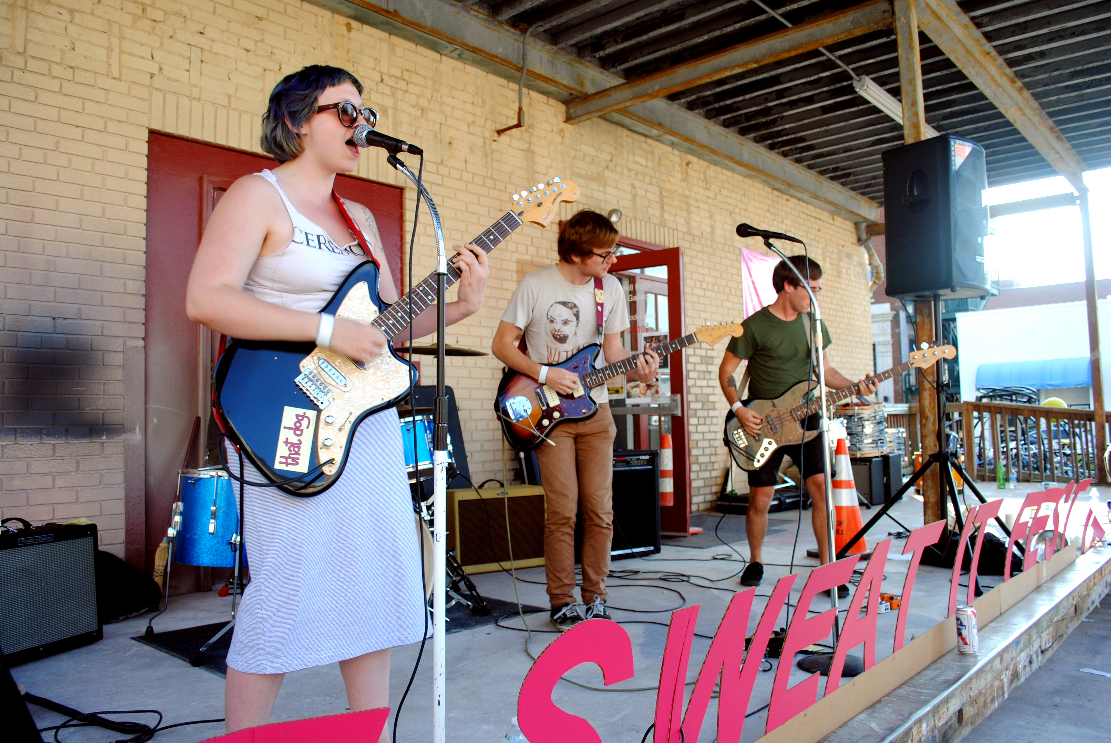 Swearin' Live 6-17-2012 At Sweat It Fest, Rock Hill, SC by Will Butler